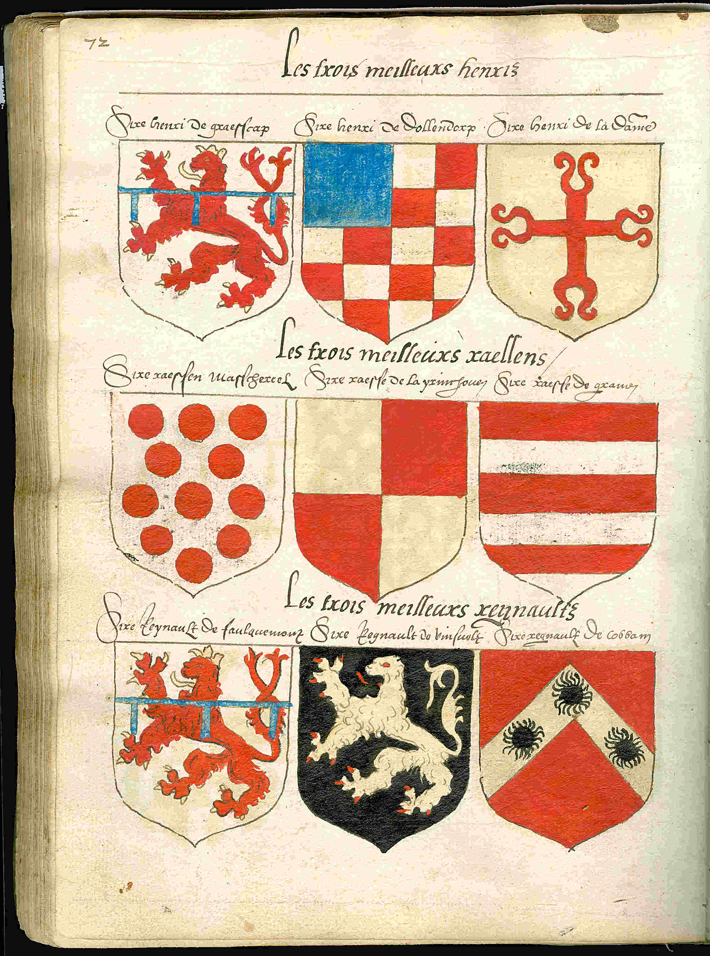 Page 72 from a copy of the Beyeren armorial / Wapenboek Beyeren from ca. 1600. The original Beyeren armorial from 1405 can be viewed at the website of the KB